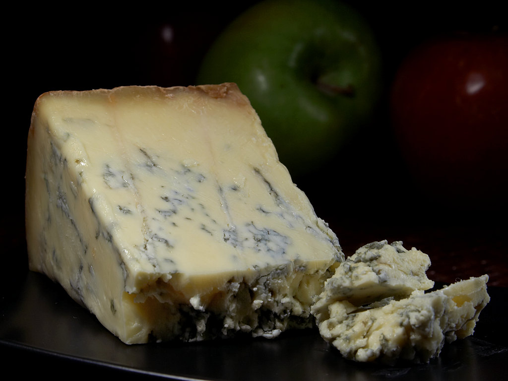 Blue Stilton cheese